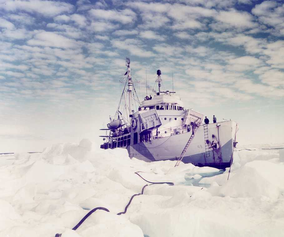 USCGC Northland in Greenland